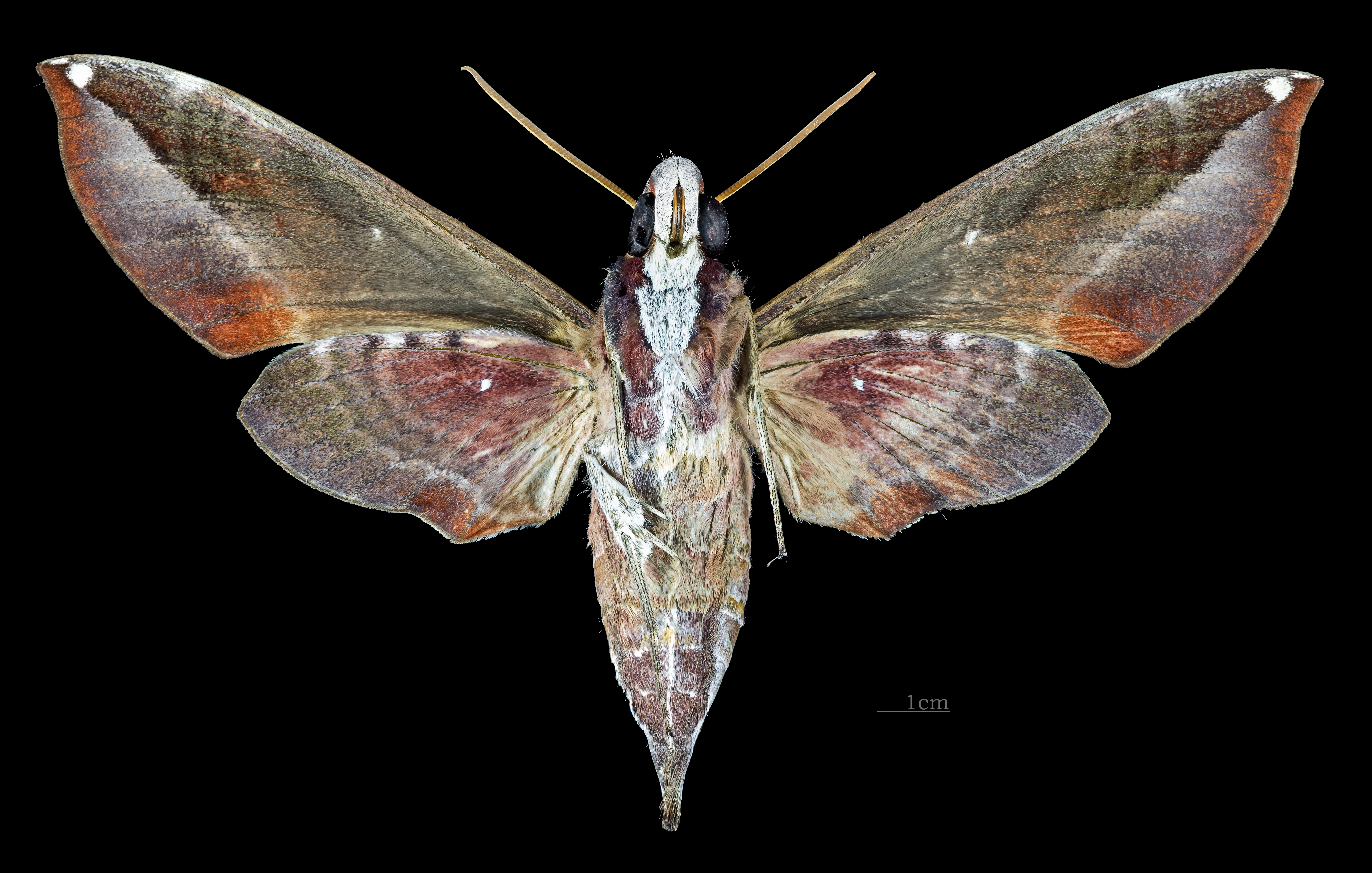 Daphnis hayesi - △ Ventral side Collection of the Mathematician Laurent Schwartz